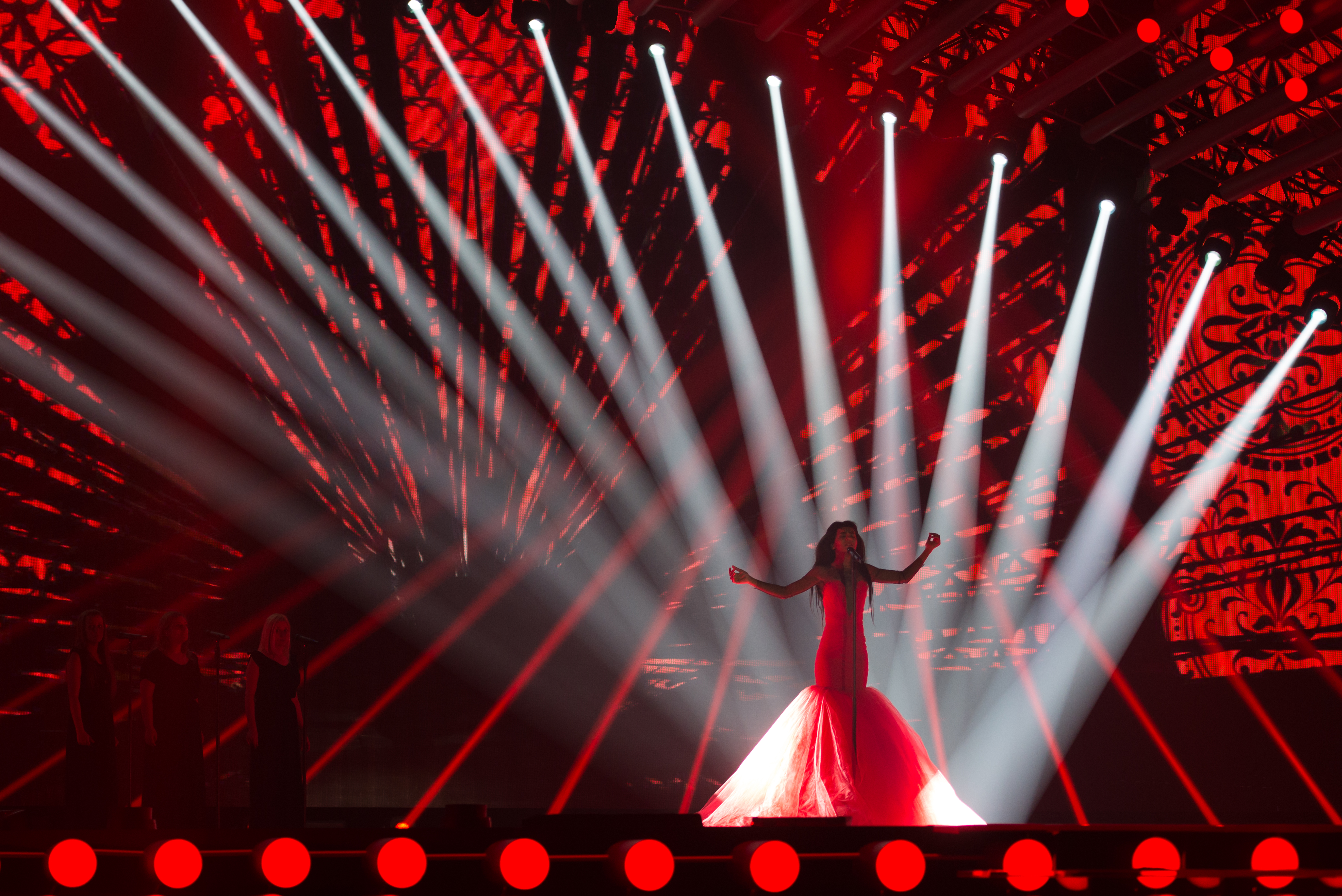 Eurovision Song Contest Vienna 2015: Aminata